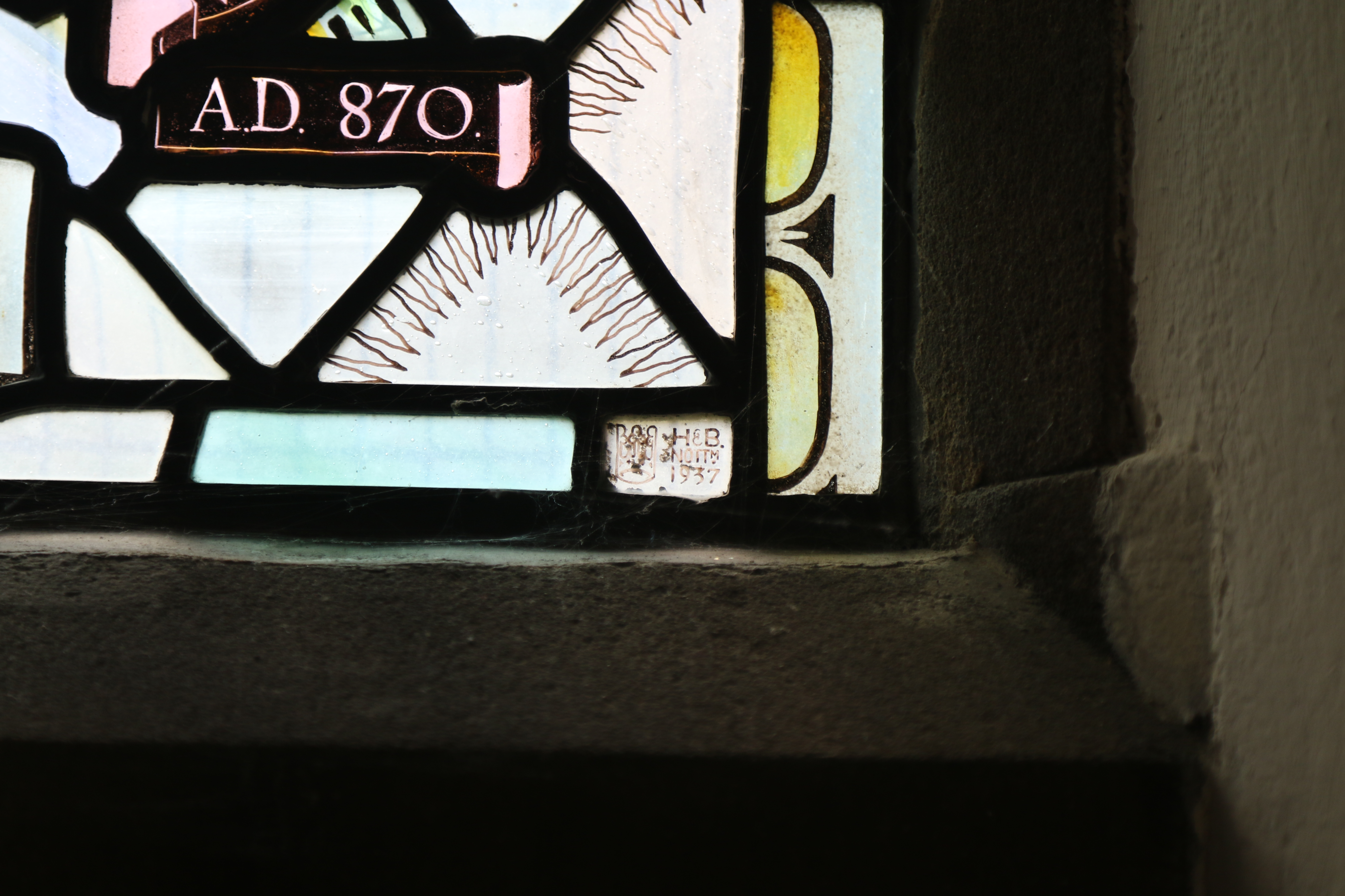 Maker's mark of Hincks and Burnell in St Edmund's Church, Castleton. Window dating from 1937.